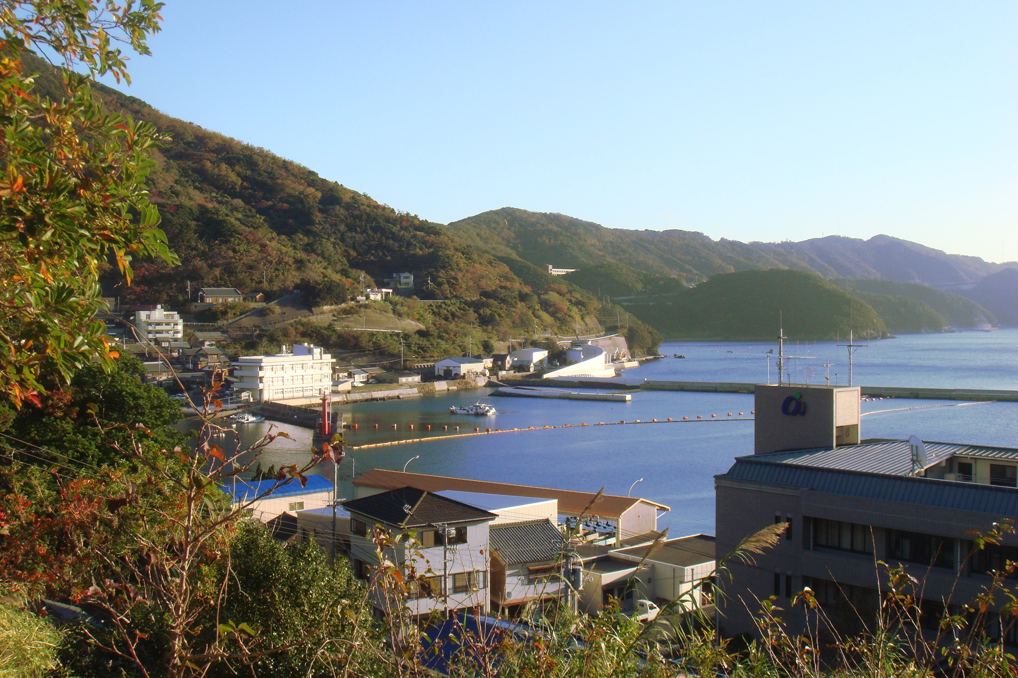 Funakoshi, a fishing village that is part of Nishiumi district in Ehime, Japan. The geography of the area is dominated by mountains, forest, and sea.